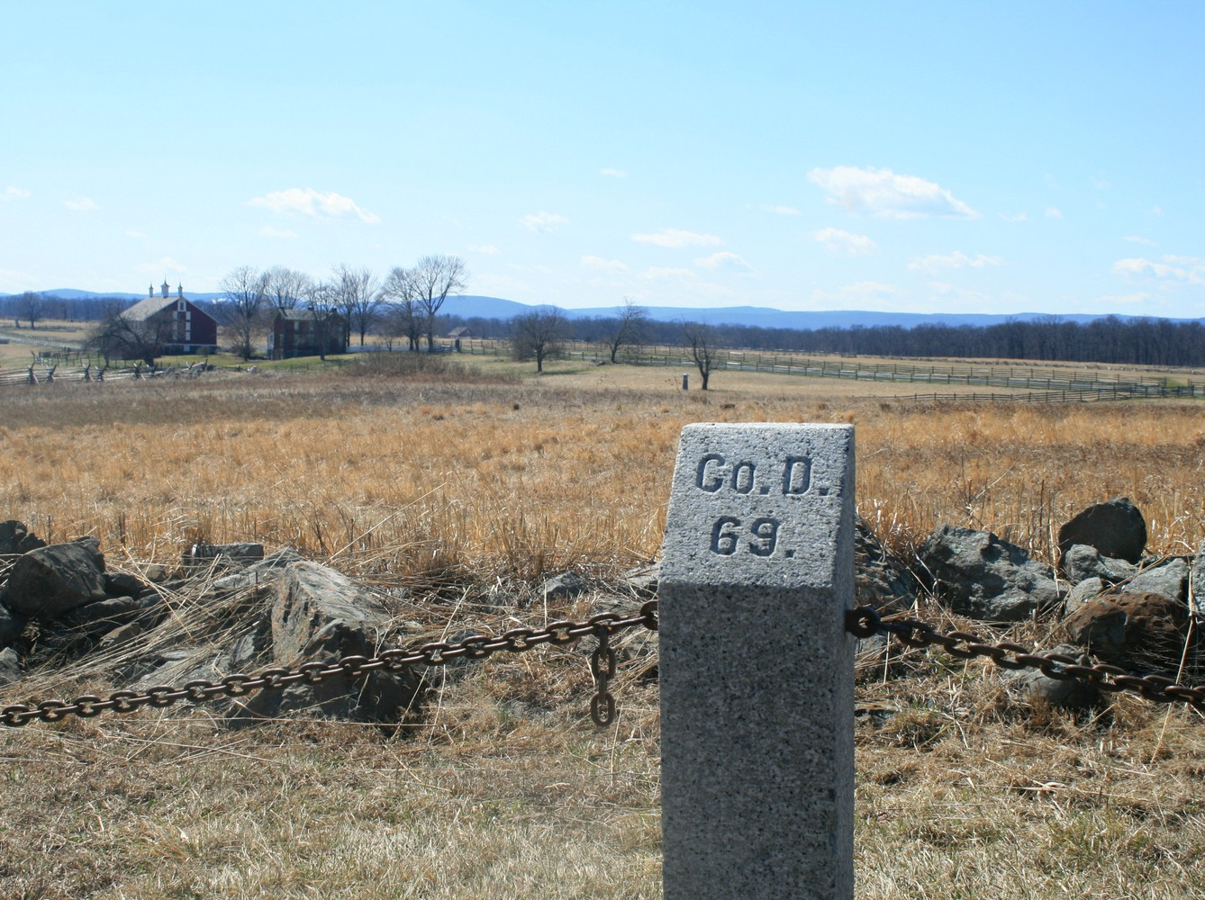 Gettysburg battlefield, position of Company "D" 69th Pennsylvania infantry regiment and Codori farm.